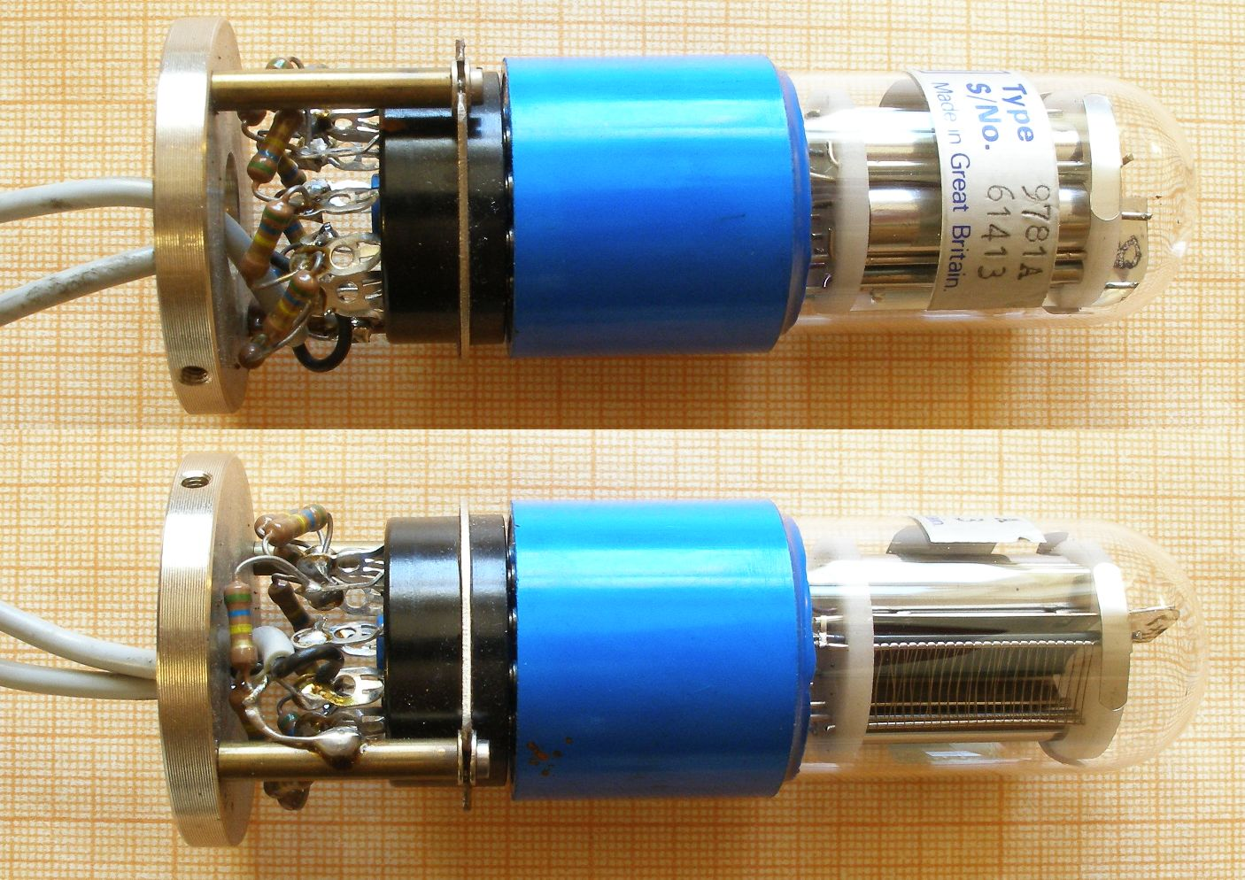 Photomultiplier 9781A EMI with voltage divider. Manufactured in Great Britain.